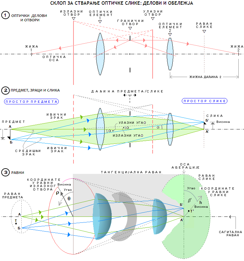 СКЛОП ЗА СТВАРАЊЕ ОПТИЧКЕ СЛИКЕ